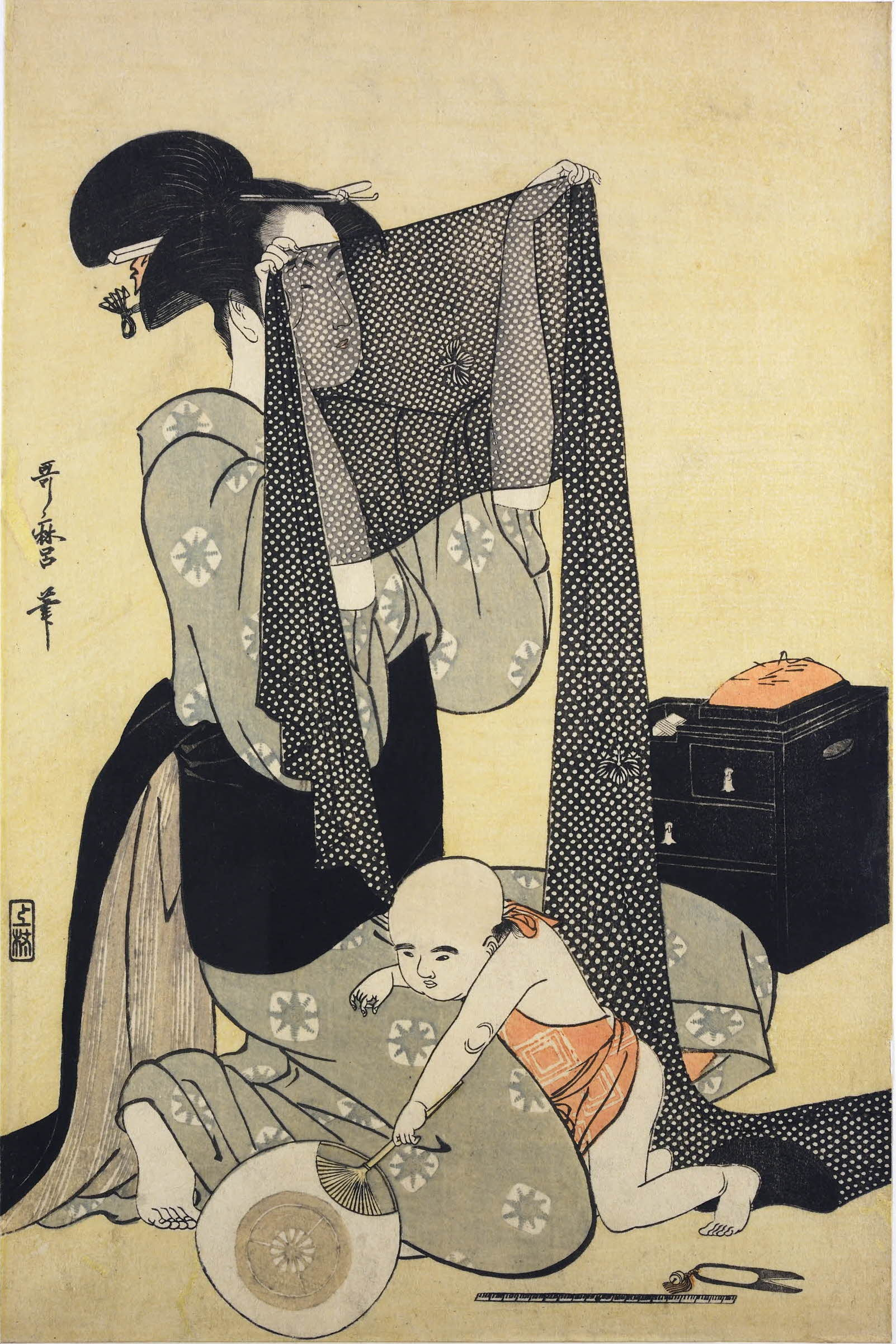 Left of three prints in an ukiyo-e triptych.